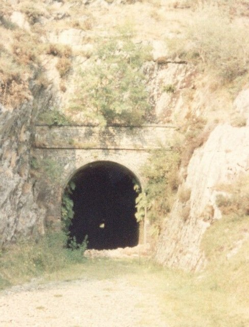 Gilfach (St Harmons) Tunnel. Southern portal of the 372yd, single track tunnel on the former Cambrian Railways line between Rhayader and St Harmon's, photographed in 1981.